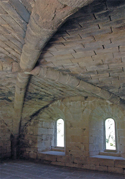 Comberoumal priory. France